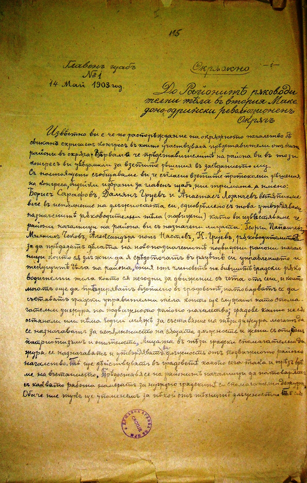 Letter of Headquarters of II Macedonian-Adrianopolitan Revolutionary district, about solutions of Congress from May 14, 1903 for imminent uprising. (1903 May 14) This media file is produced by Wikipedian in Residence in Category:Wikipedian in Residence at DARM in 2016.